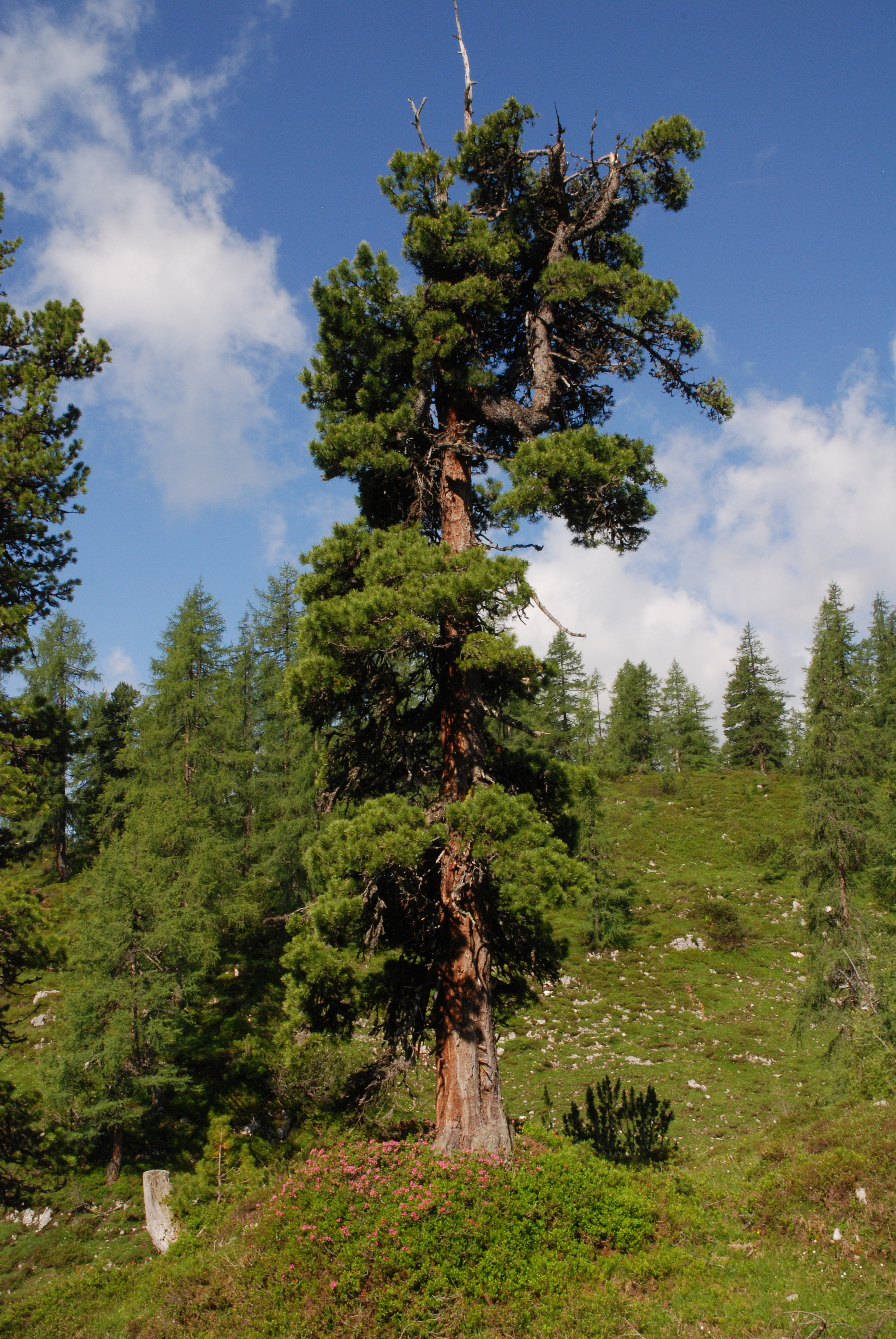 Pinus cembra Near Kleinmölbing, ~ 1700 Meters, Styria, Austria